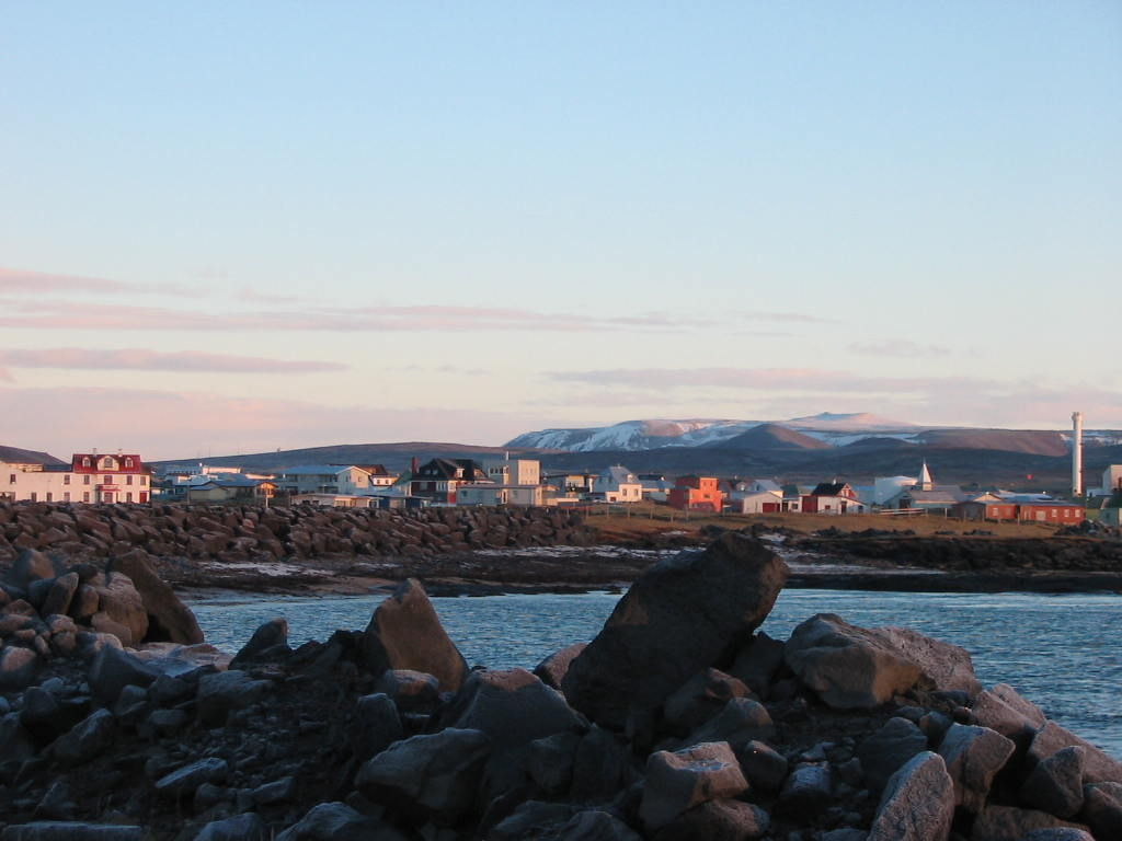 View over Grindavik, Iceland